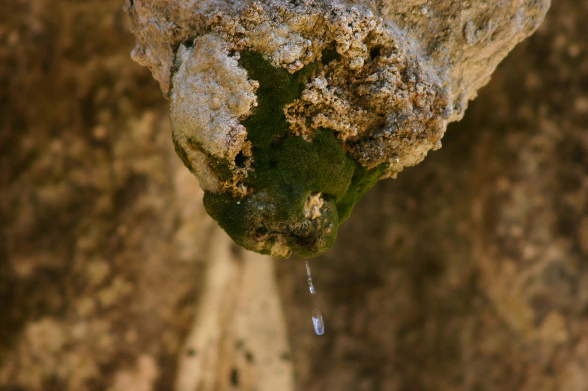 A stalactite overgrown with mosses around its tip, with a water droplet just coming out of its central canal.